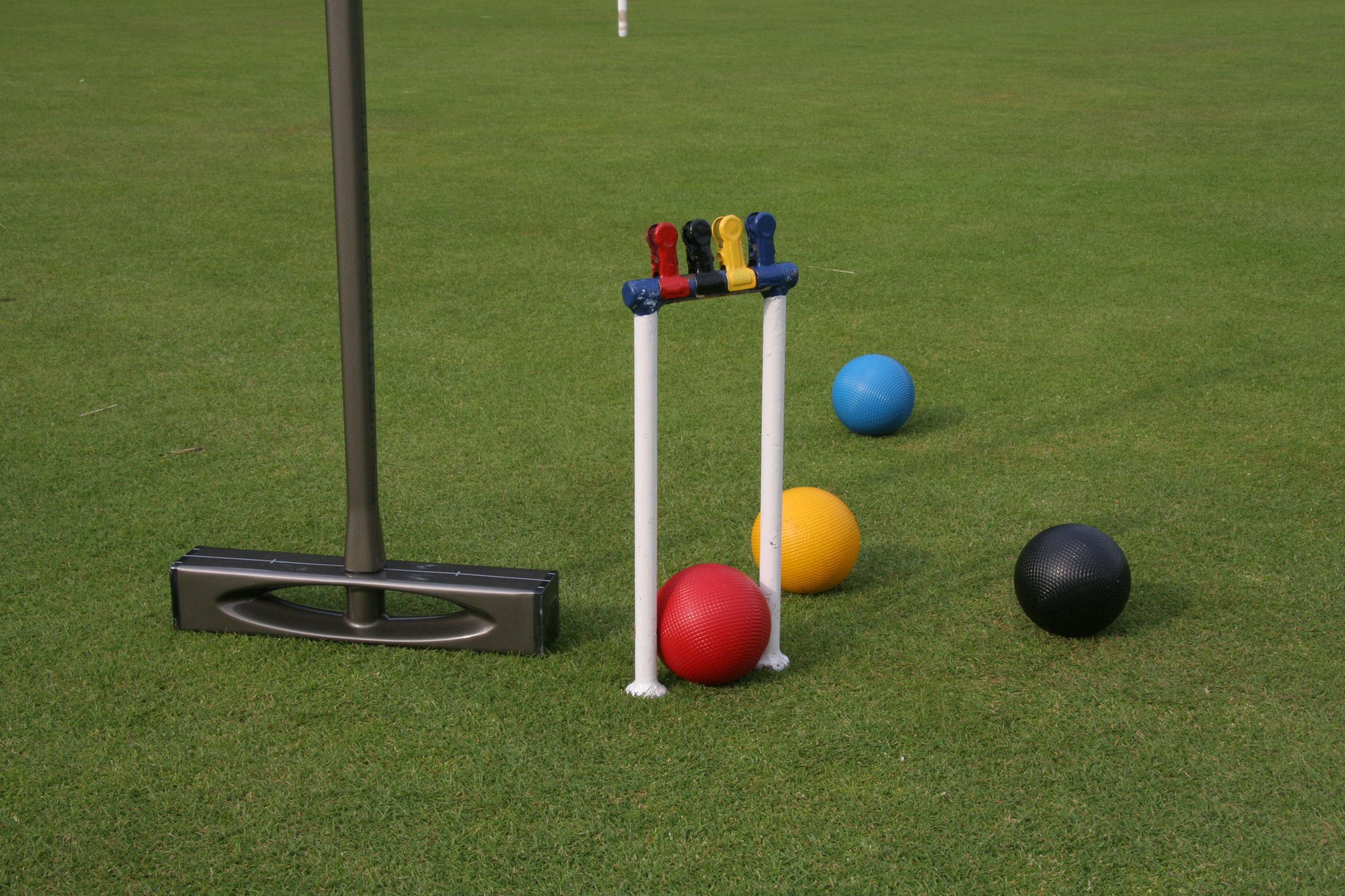 Fenwick Elliott Series 4 carbon fibre croquet mallet, Dawson high density plastic balls and cast iron hoop with clips.